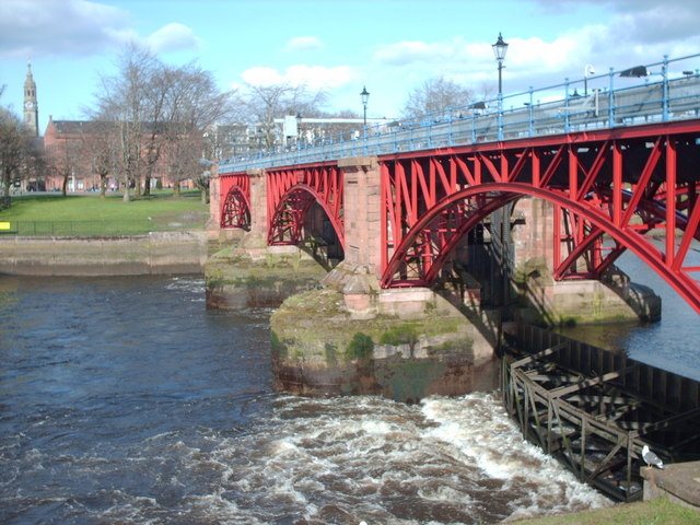 Glasgow Tidal Weir The weir is over 100 years old.